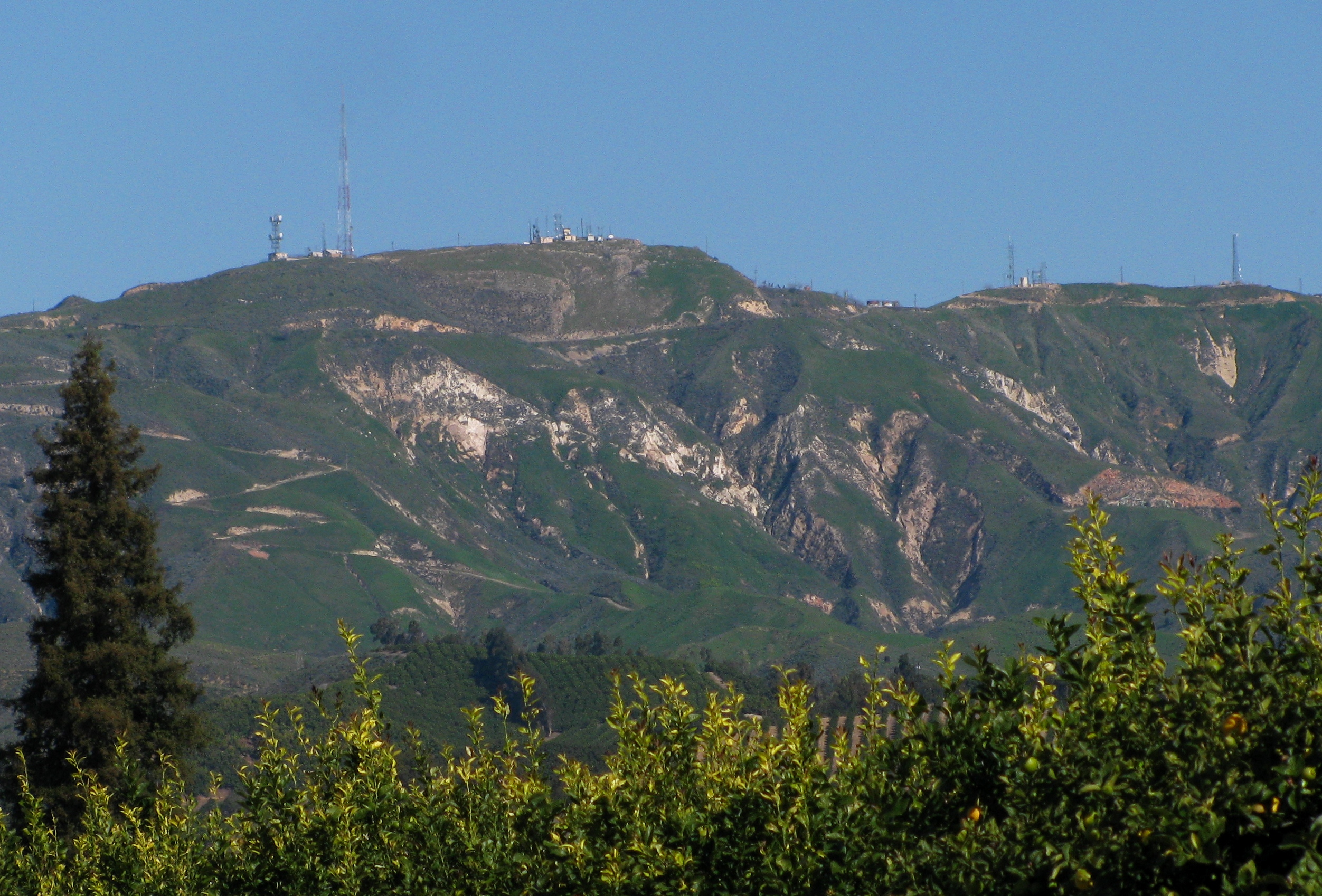 South Mountain — showing part of the South Mountain Oil Field near the ridgetop. Southeast of Santa Paula, in Ventura County, California Photo by self, GFDL/equiv.